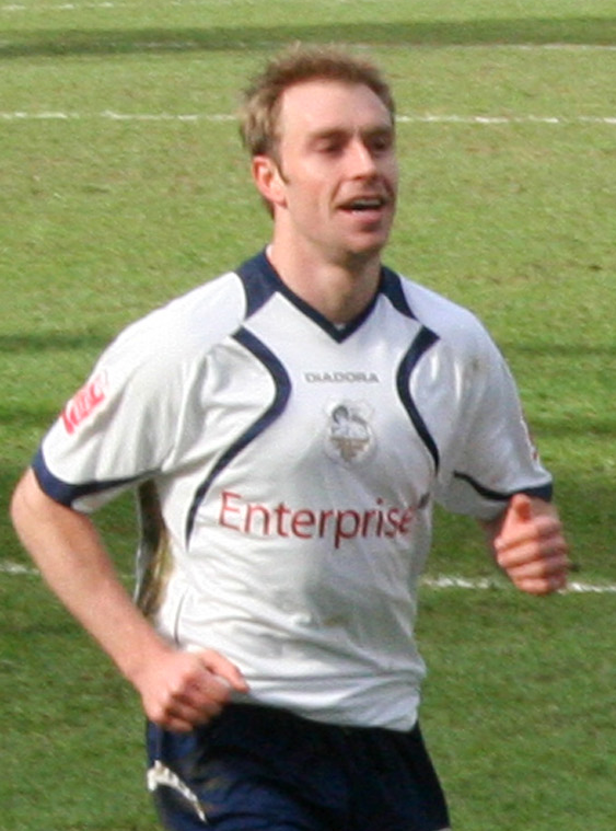 Chris Sedgwick. Image cropped from original at flickr.